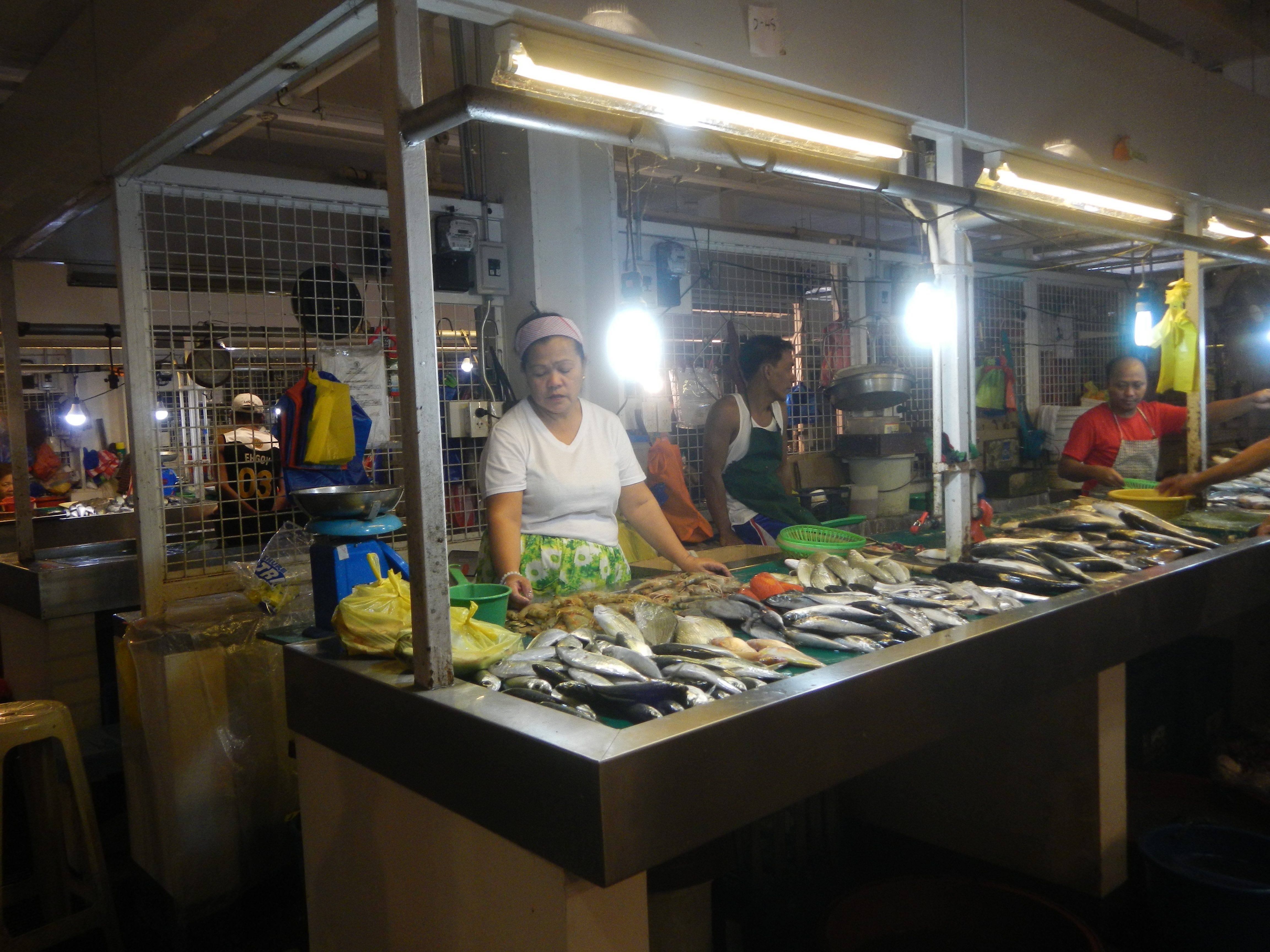 Quinta Market & Fishport (Quiapo, Manila) Quinta Market 14°35'46"N 120°58'57"E Ahlan Wassahlan Muslim Town Welcome Arch (Quiapo, Manila) Muslim Town 14°35'46"N 120°59'2"E Ahlan Wassahlan Quezon Boulevard Buildings in Quiapo, Manila Legislative districts of Manila Barangay 384, Zone 39, District III, beside Barangays 390, 391, 392 and 393, Zone 40, District III, Quiapo, Manila, City of Manila (Note: Judge Florentino Floro, the owner, to repeat, Donor Florentino Floro of all these photos hereby donate gratuitously, freely and unconditionally all these photos to and for Wikimedia Commons, exclusively, for public use of the public domain, and again without any condition whatsoever).